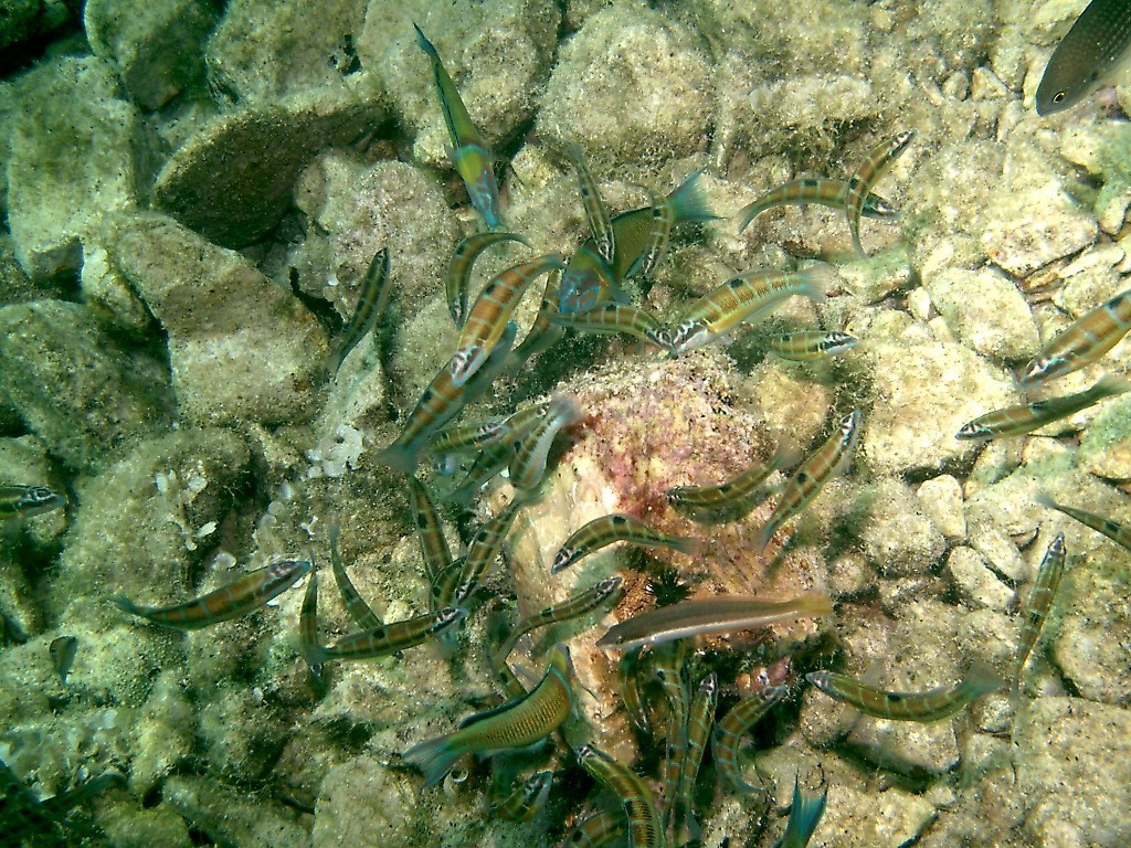 Ornate Wrasse Thalassoma pavo Attica, Greece